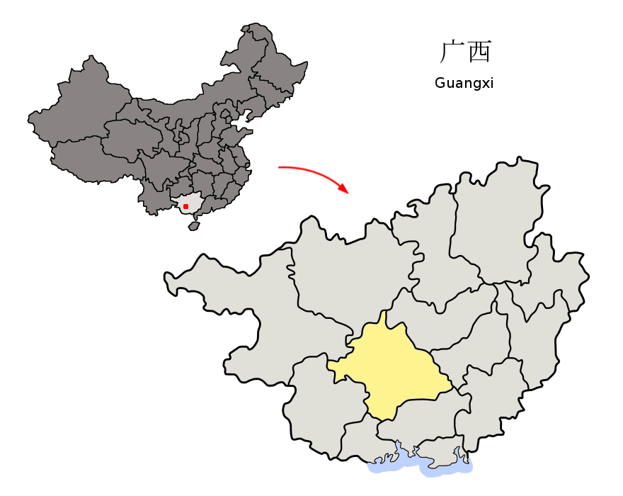 Location of Nanning Prefecture (yellow) within Guangxi Autonomous Region of China Map drawn in november 2007 using various sources, mainly : Guangxi Autonomous Region administrative regions GIS data: 1:1M, County level, 1990 Guangxi Counties map from